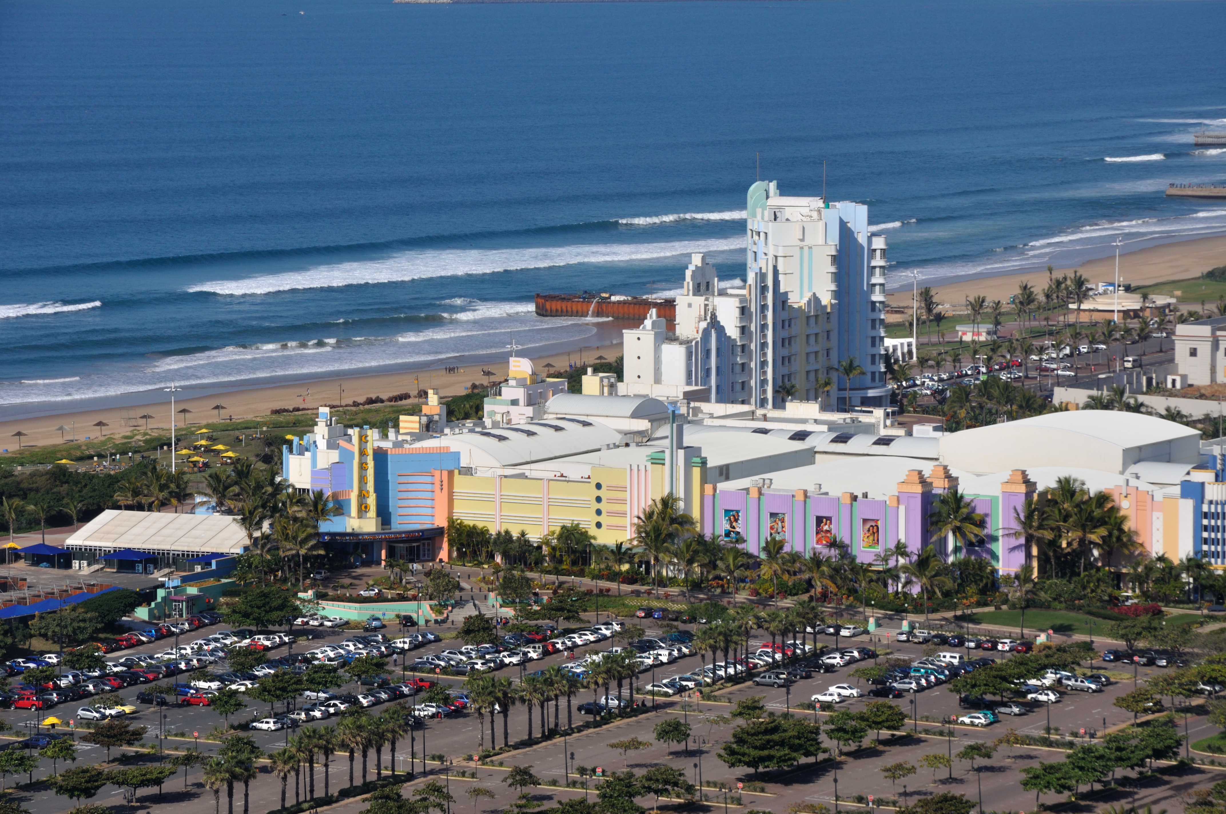 Suncoast Casino and Hotel in Stamford Hill suburb of Durban, South Africa, as seen from the top of the Moses Mabhida Stadium, also in Stamford Hill suburb.